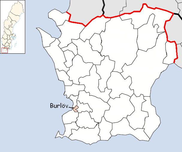 Burlöv Municipality in Scania, Sweden Designed by me. Mere outlines are a PD source from